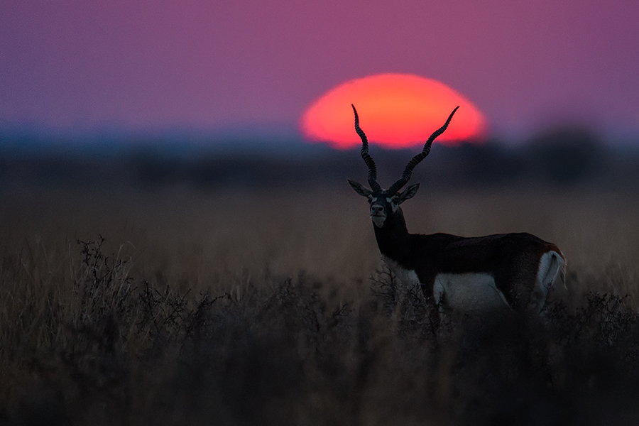 Tal Chhapar Sanctuary